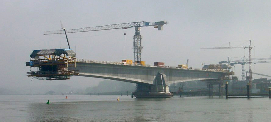 The Pierre Pflimlin bridge being constructed over the river Rhine between Germany and France. Photo of the eastern pylon, taken from the French side of the river (southwest, Eschau), with the cantilever construction almost 2/3rds of the maximum length. Visible behind the bridge is the approach viaduct and a cement works on the German side (Altenheim).